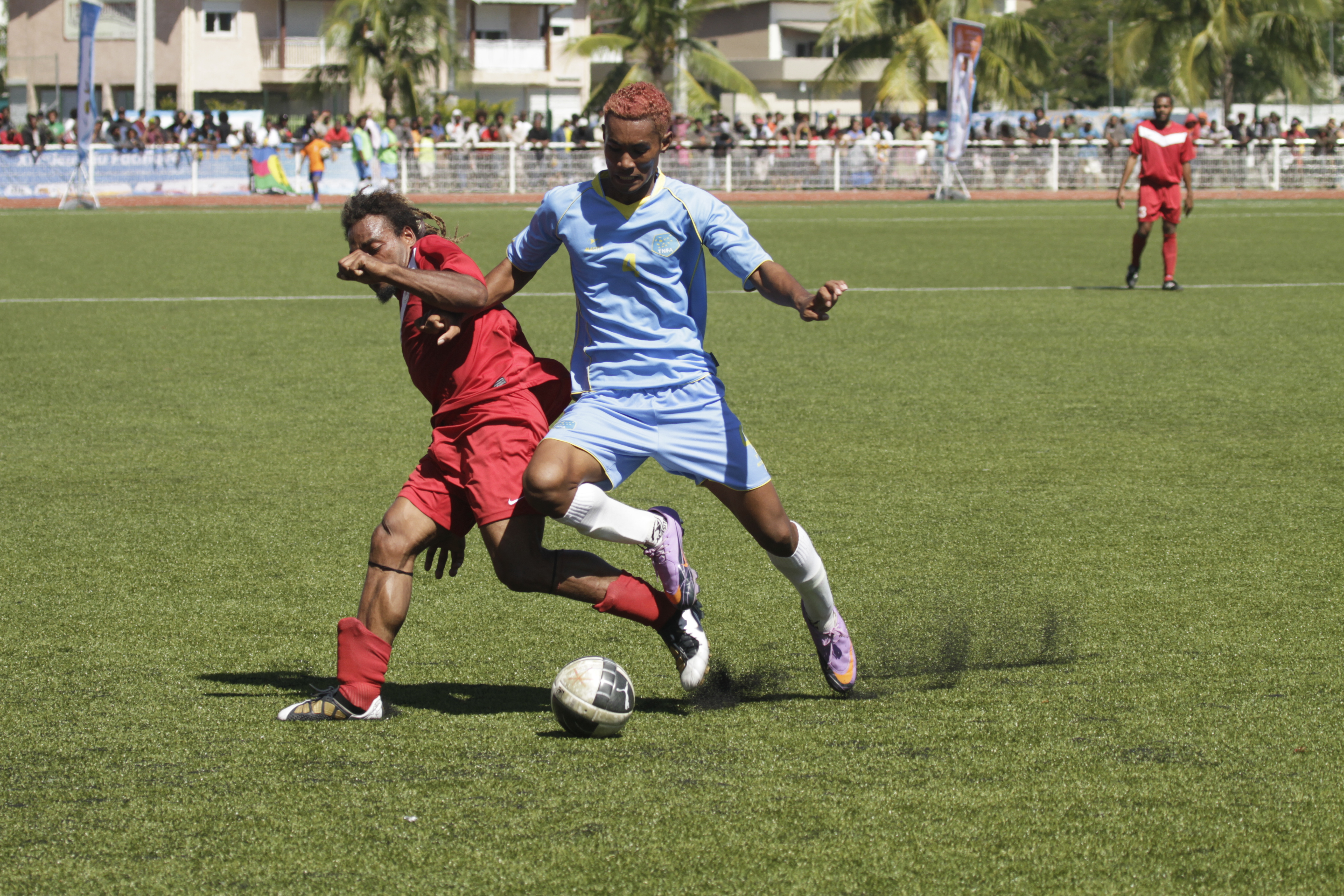 Timuani_02